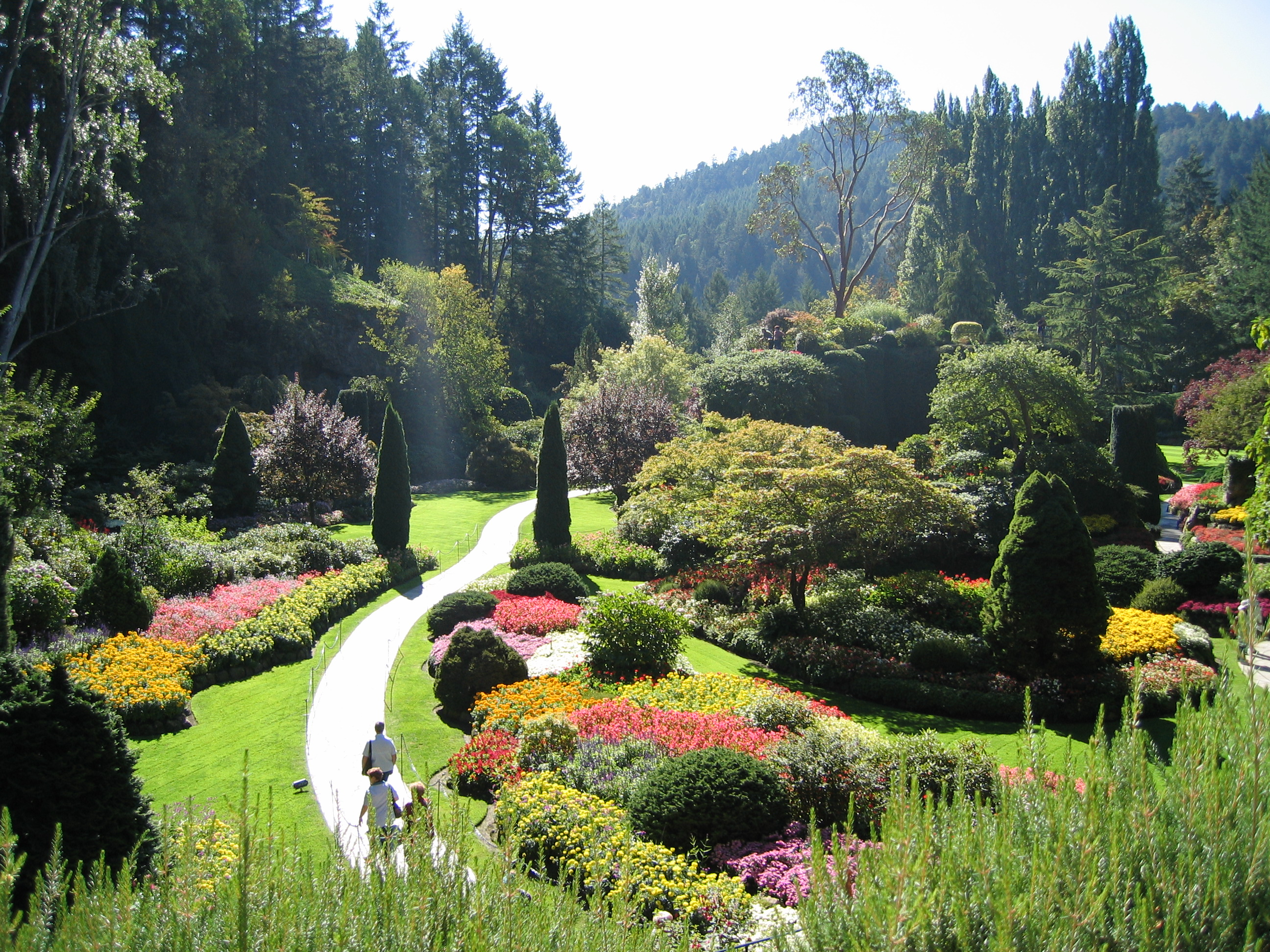 Garden "butchart gardens", Vancouver Island, British Columbia, Canada